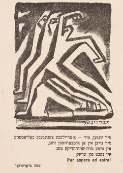 Per aspera ad astra